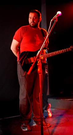 Doruk Cetin shooting music video for Demir Demirkan along with Ata Demirer.